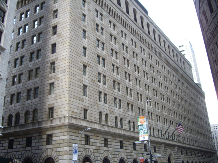 Federal Reserve Bank of NY, 33 Liberty Street